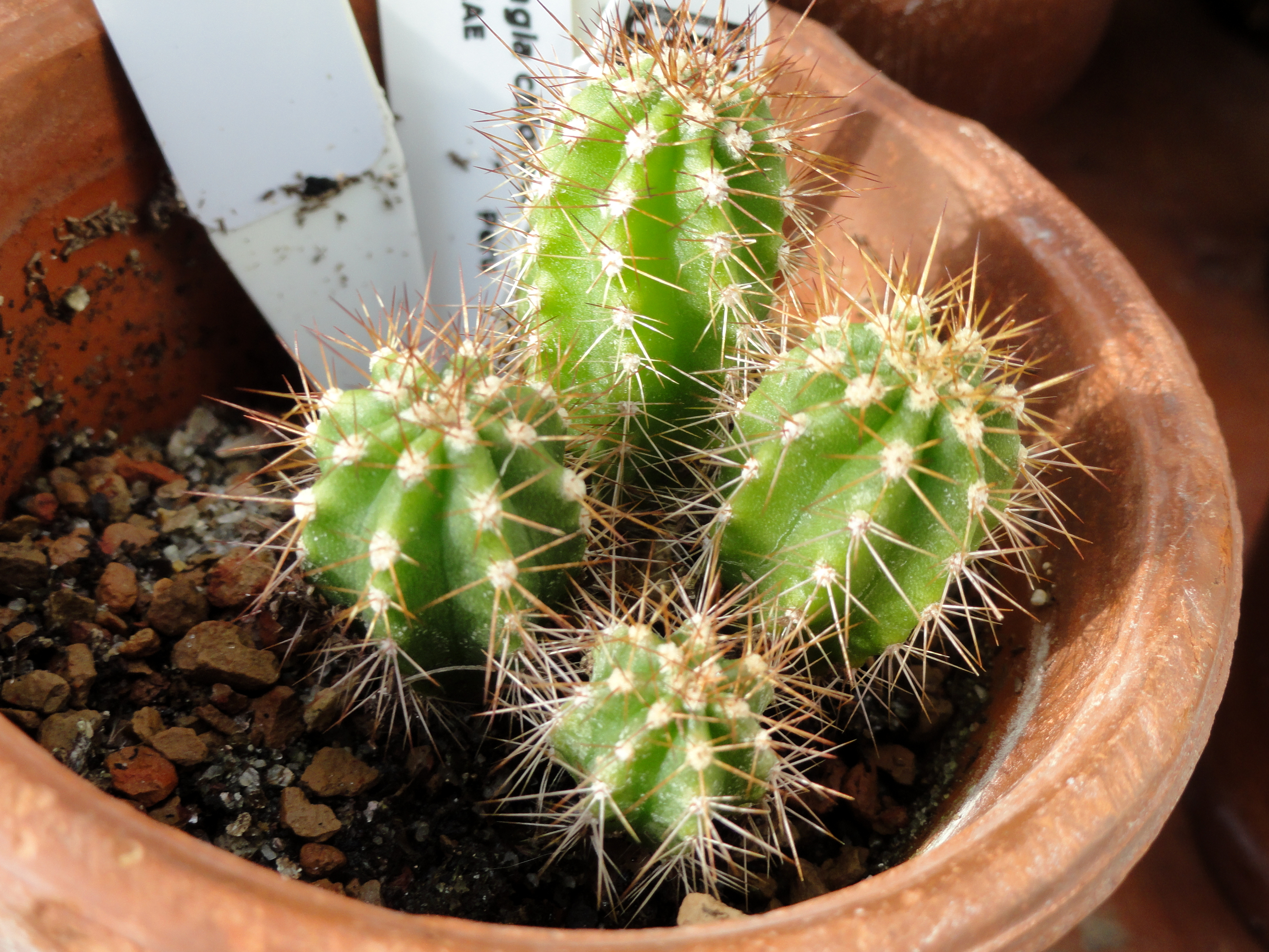 Botanical specimen in the Lyman Plant House, Smith College, Northampton, Massachusetts, USA.